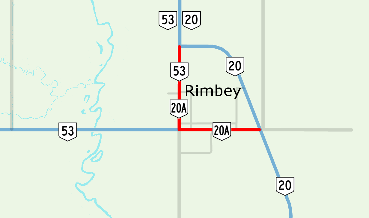 Deerfoot Trail - created with OpenStreetMap